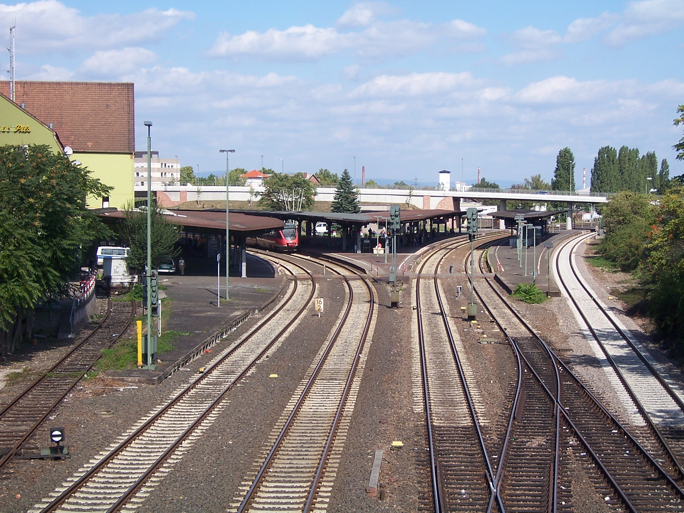 Rails of Bad Kreuznach train station, view from direction Bad Münster-Ebernburg